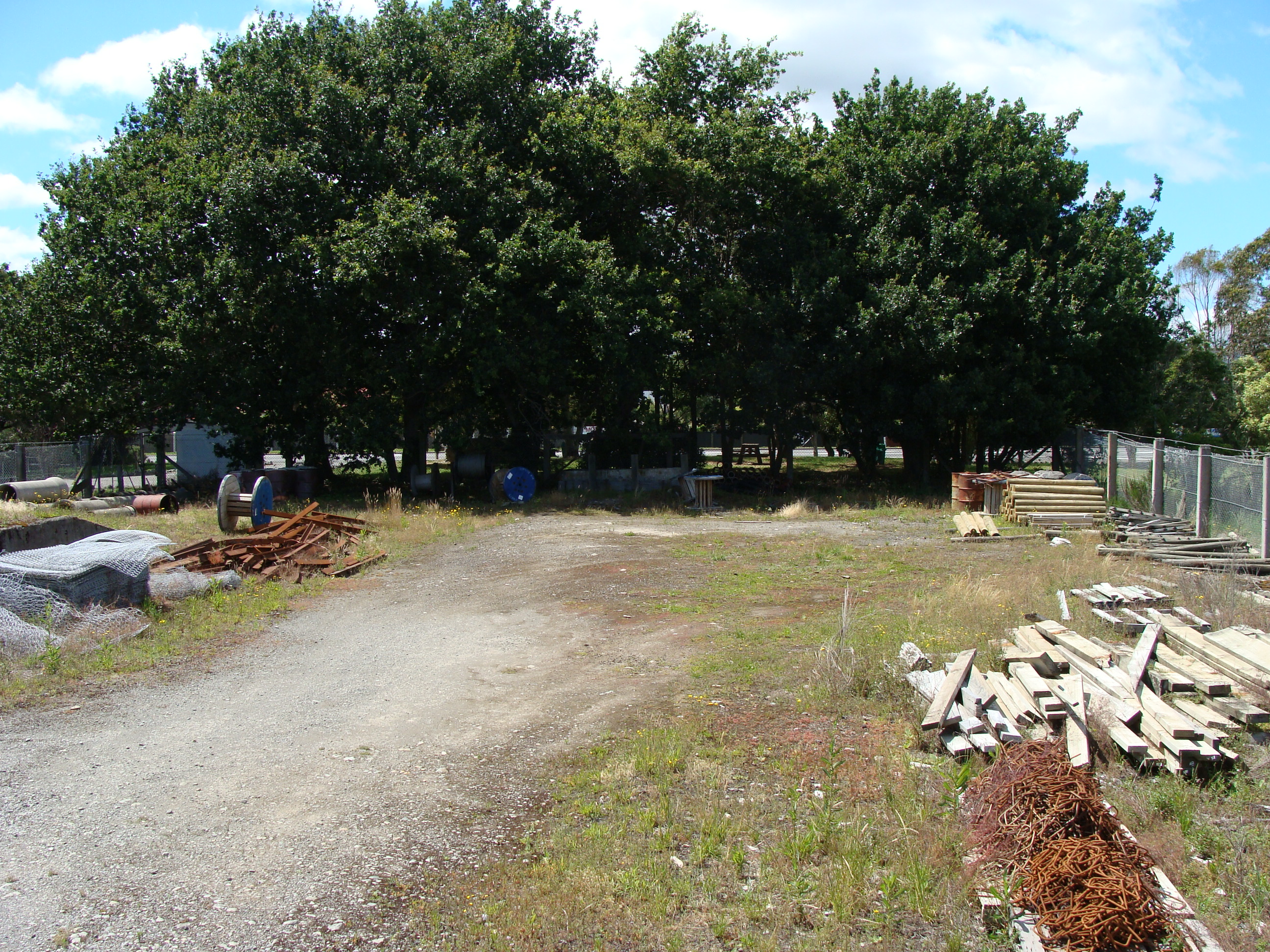 Greytown railway station yard. Beyond the trees is a reserve which includes the end of the formation of the Greytown Branch and marks the terminus of the line.